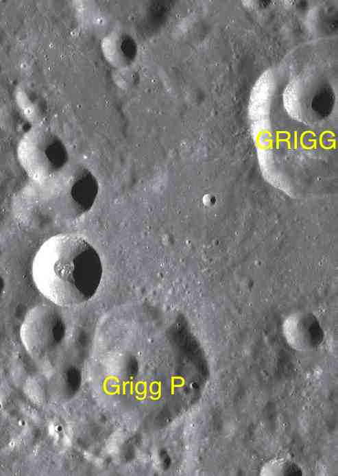 Part of the chart LAC-70 used for the presentation